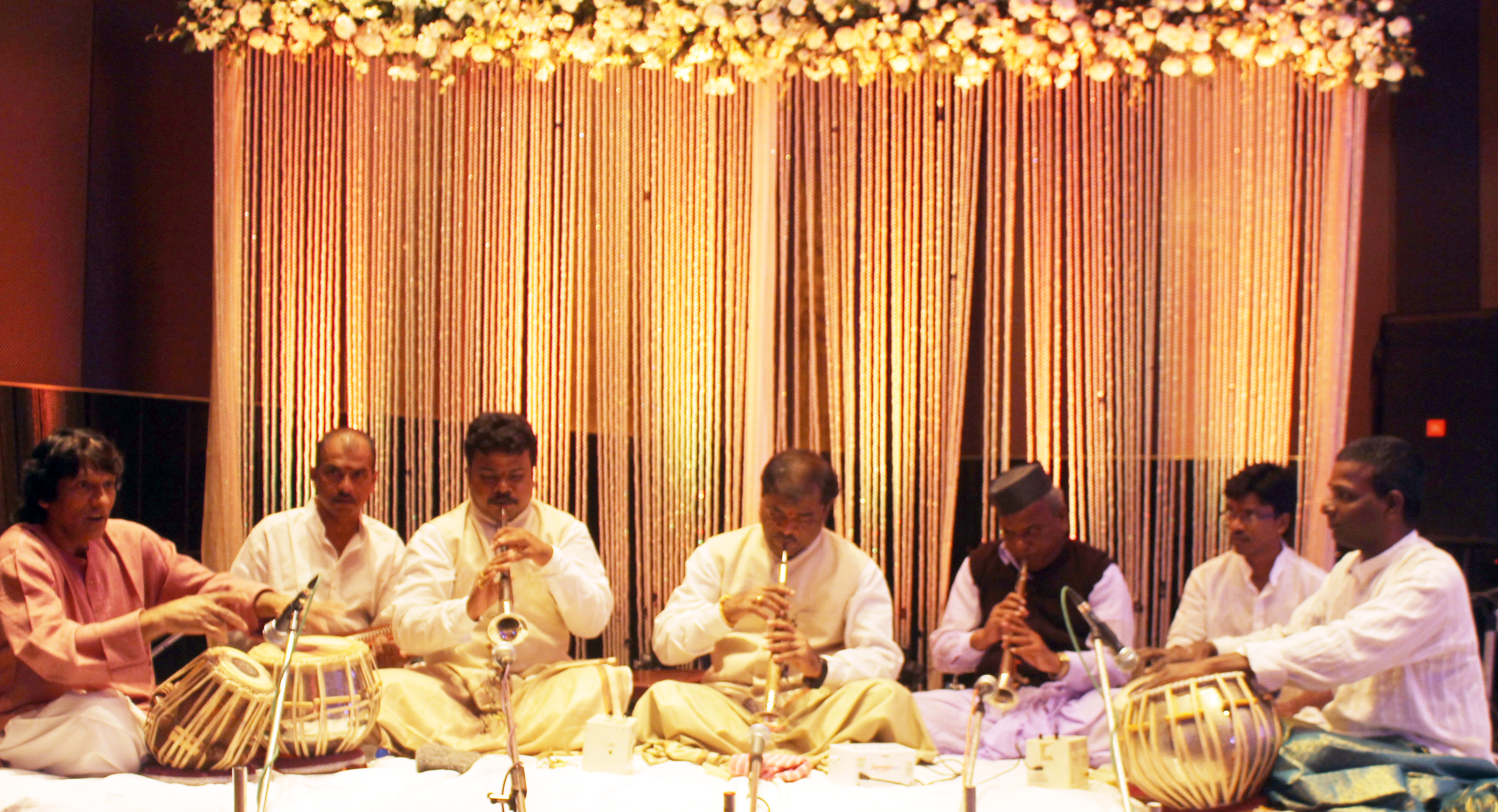 Shehnai Maestro Pandit S. Ballesh and Krishna Ballesh in Concert with Tabla Nawaz Ustad Nazim Hussain Son of Ustad Bismillah Khan Sahab